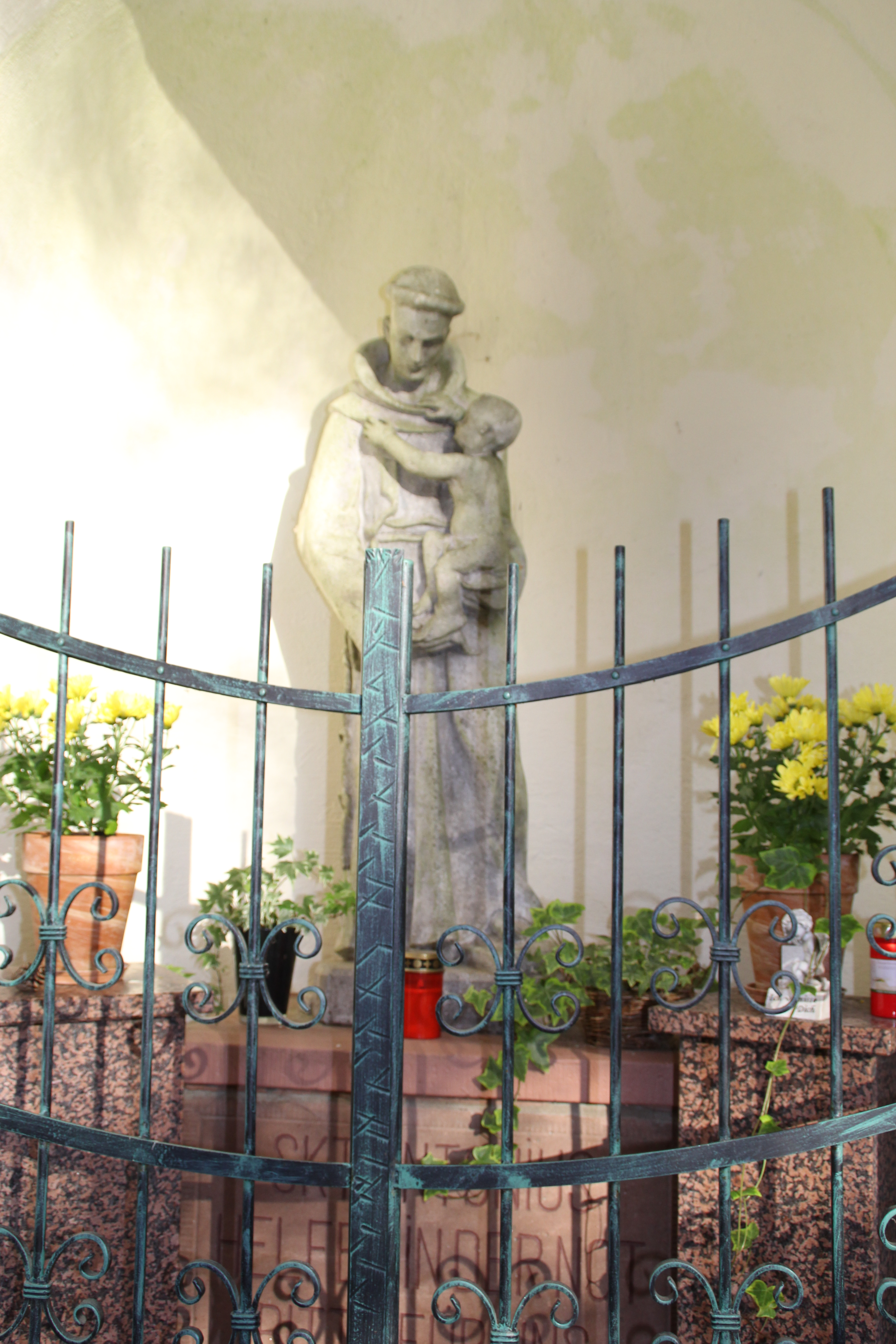 Statues of Saint Anthony of Padua in the Antonius grotto near Alzenau